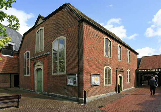 Meeting House, Meeting House Lane, Ringwood. The Meeting House was built in 1727 by the 500 strong Presbyterian community in Ringwood. The interior is unusual in being virtually unchanged from the 18th century. The walkway to the right goes to the Meeting House Shopping Centre (containing Sainsburys) and thence via Pedlars Walk to the High Street. It is the principal pedestrian route between the car park and the High Street.